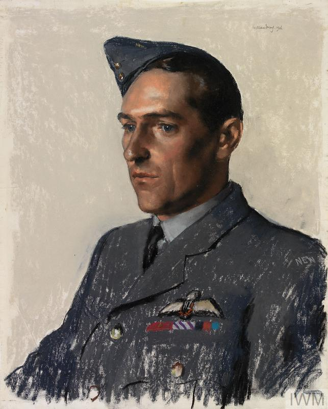 A half length portrait of Squadron Leader Henry Trent VC DFC wearing his RNZAF uniform. A War Artists Advisory Committee commission by William Dring, 1947. © IWM (Art.IWM ART LD 5832)